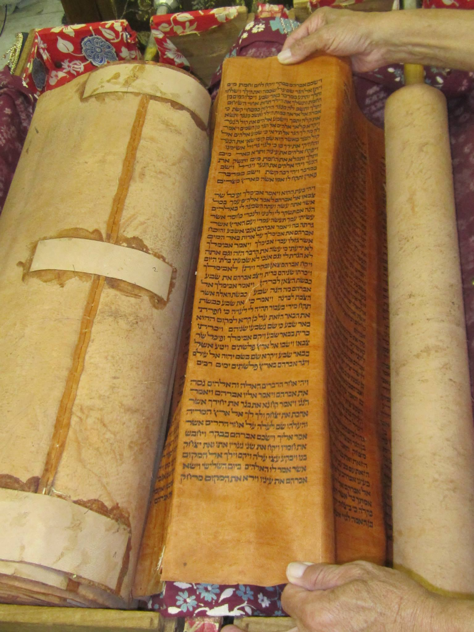 This is a 200 year old Yemenite Sefer Torah, on Gevil, that I photographed at my Beith Keneseth today. The Sofer was from the Sharabi family